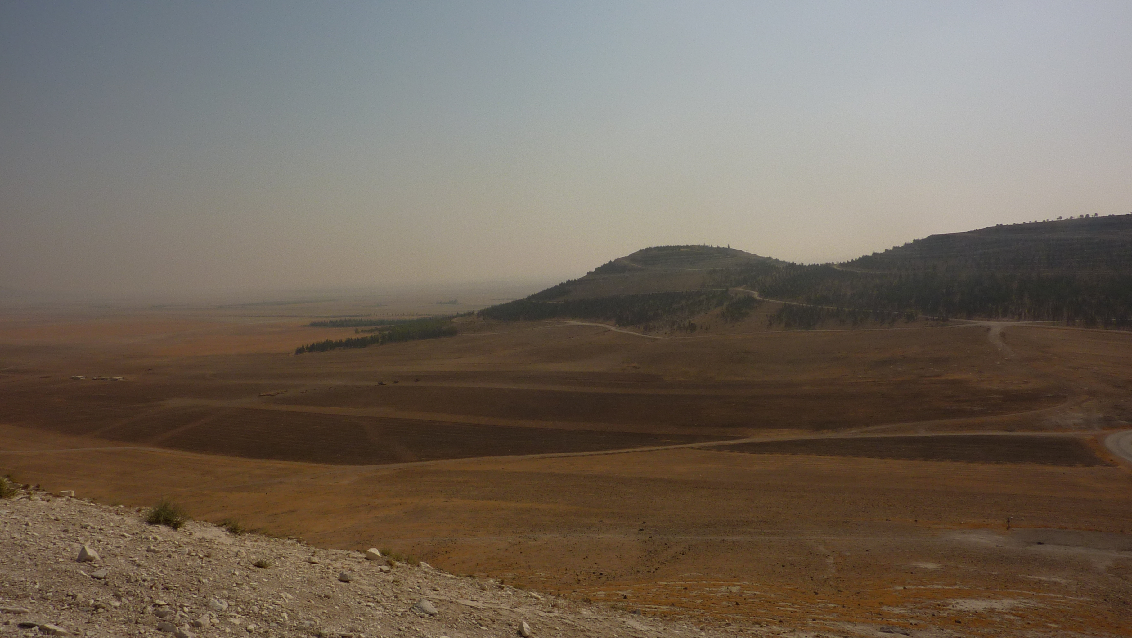 View from the summit of the castle.